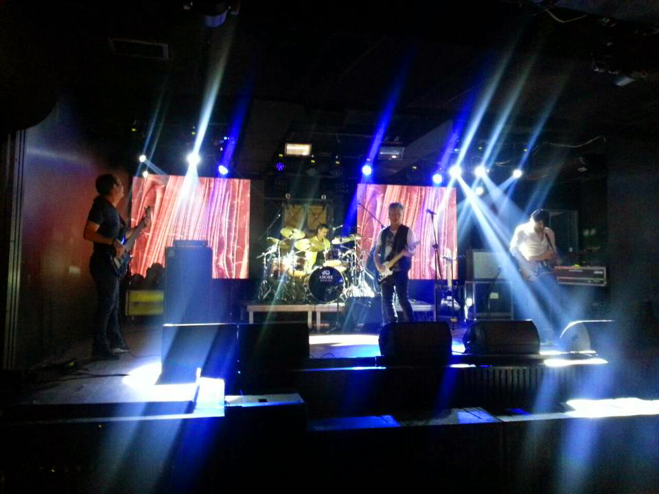 Kuru Kafa band rock performance in Istanbul. Tarkan Çakır (vocals and guitar), Zülfikar Ali Cengiz (guitar), Tansel Sorucu (bass) and Hüseyin Cebeci (drums).